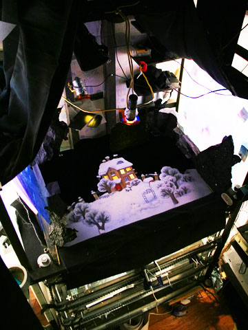 Photo of animation stand